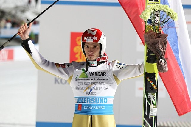 Robert Kranjec during saturday individual competition of FIS Ski-Flying World Championships 2012